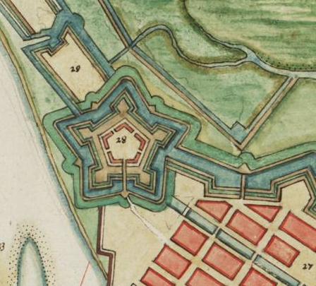 City of Recife (Brazil) in the 17th century showing the Fort of Cinco Pontas (labelled 28)